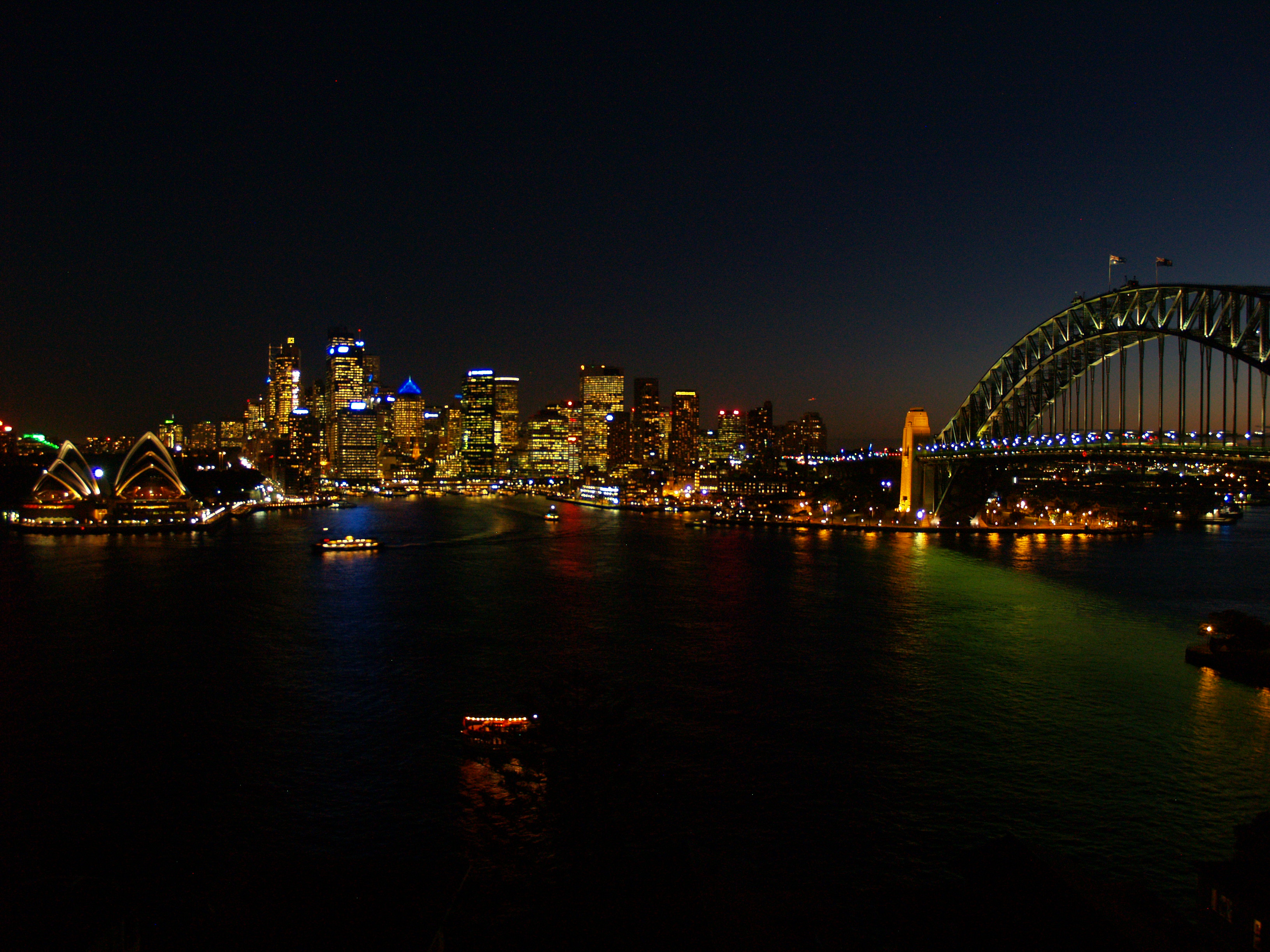 Evening skyline of Sydney from Kirribilli, New South Wales.